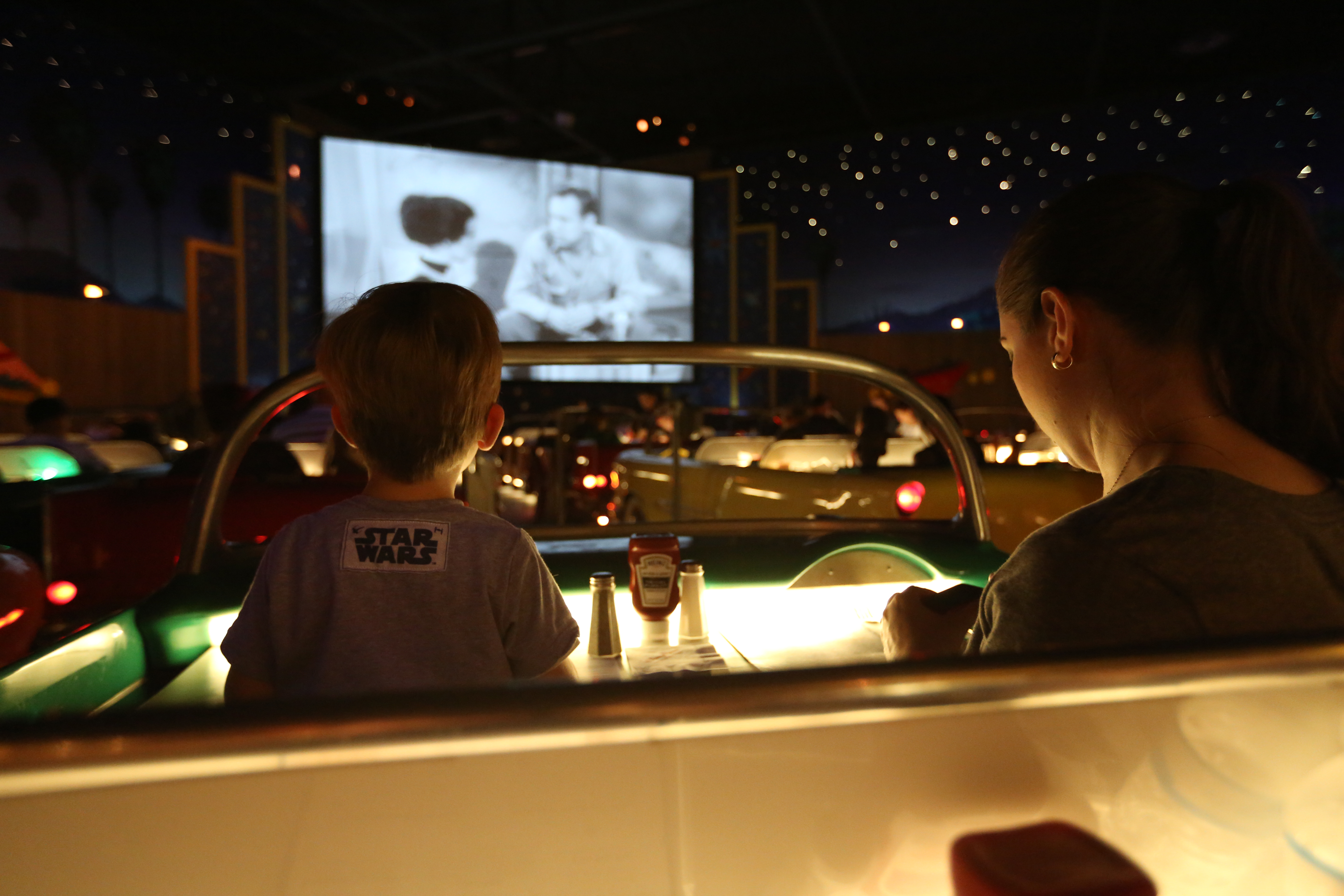 A mother and child at the Sci-Fi Dine-In Theater Restaurant